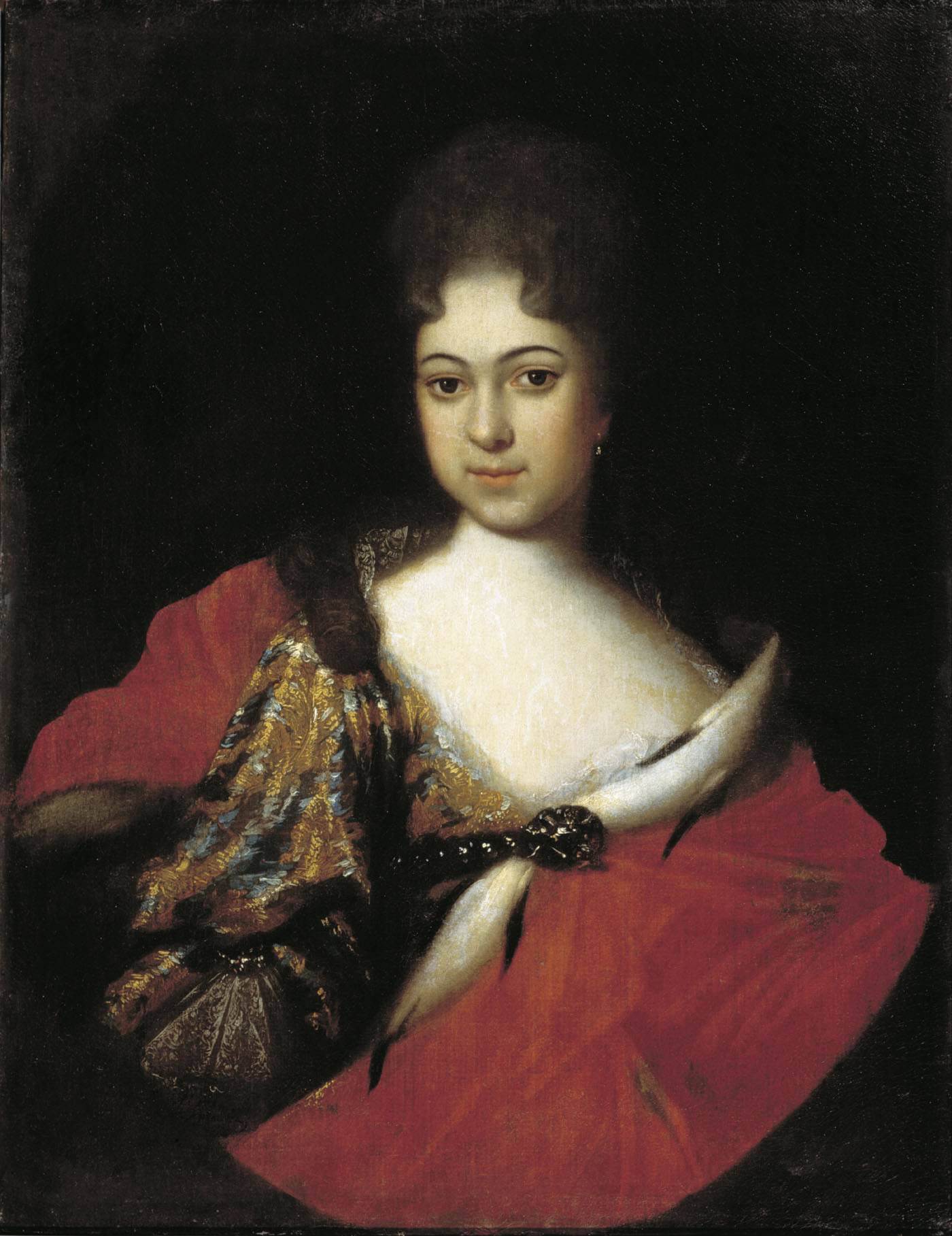 Tzarina Praskovia Ioanovna